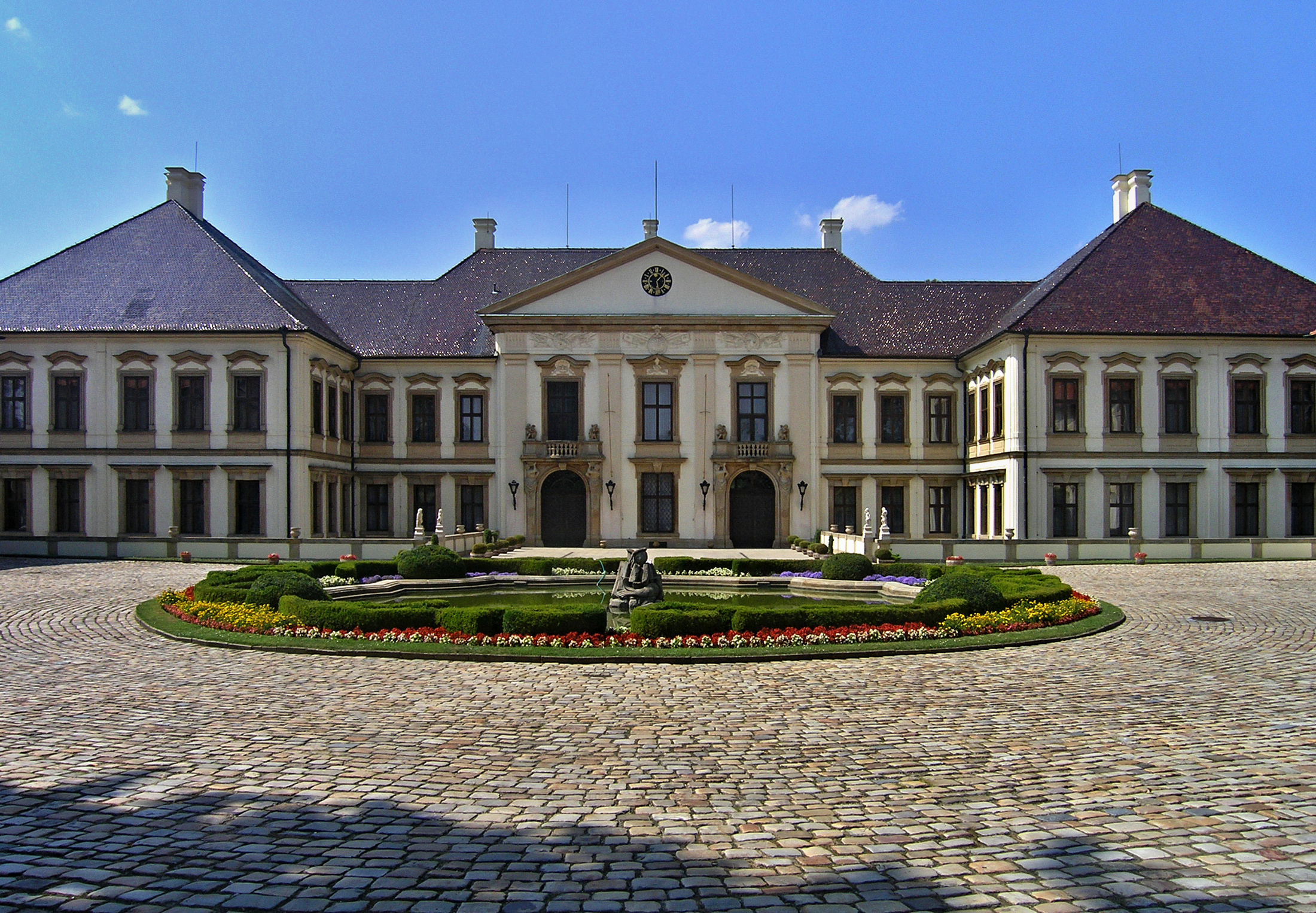 Government castle in Koloděje, Prague